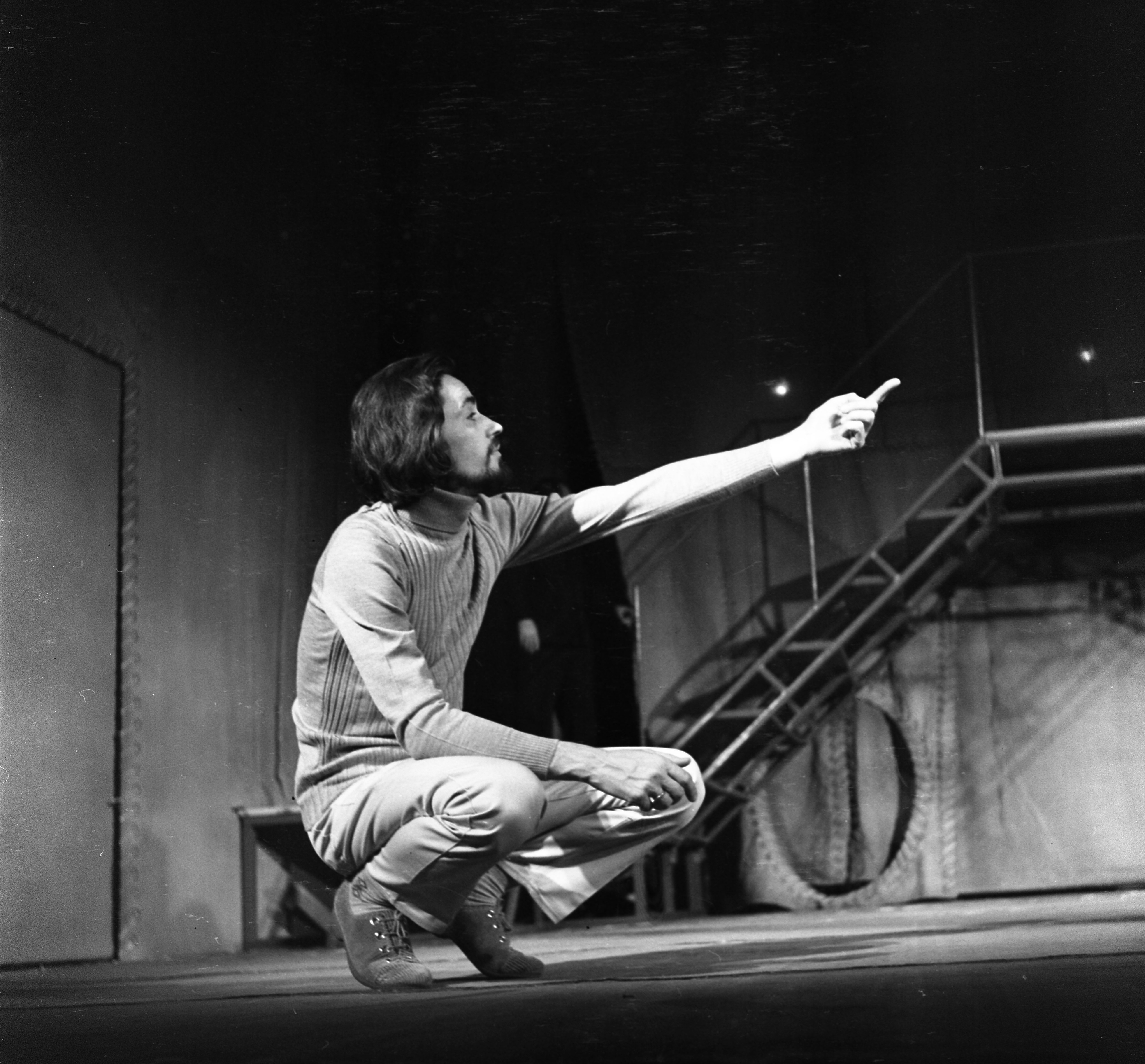 At the rehearsal of a theatrical play entitled Svejk in the hinterland in József Attila Theater, Budapest